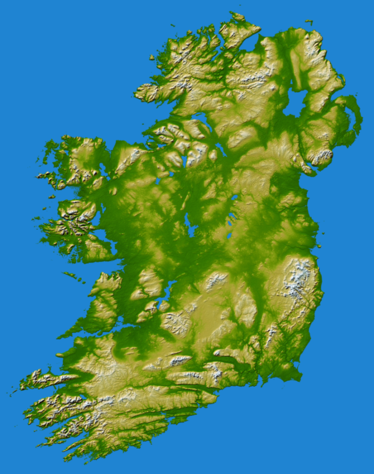 Topography of Ireland